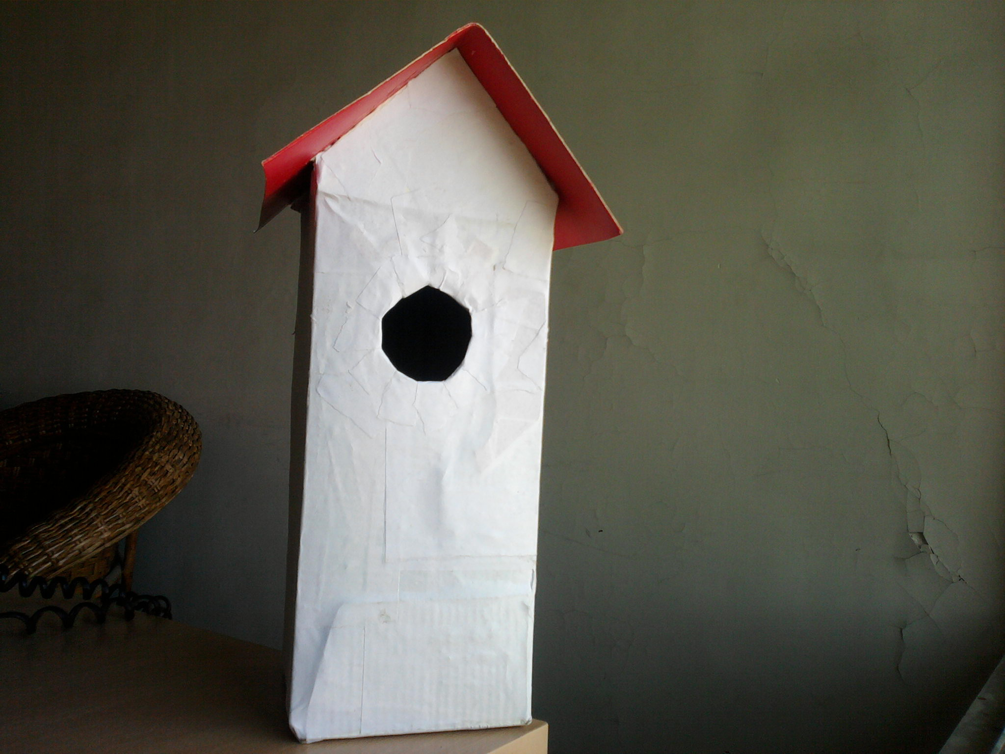 Sparrow home made on 20 March 2011 to celebrate World Sparrow Day.